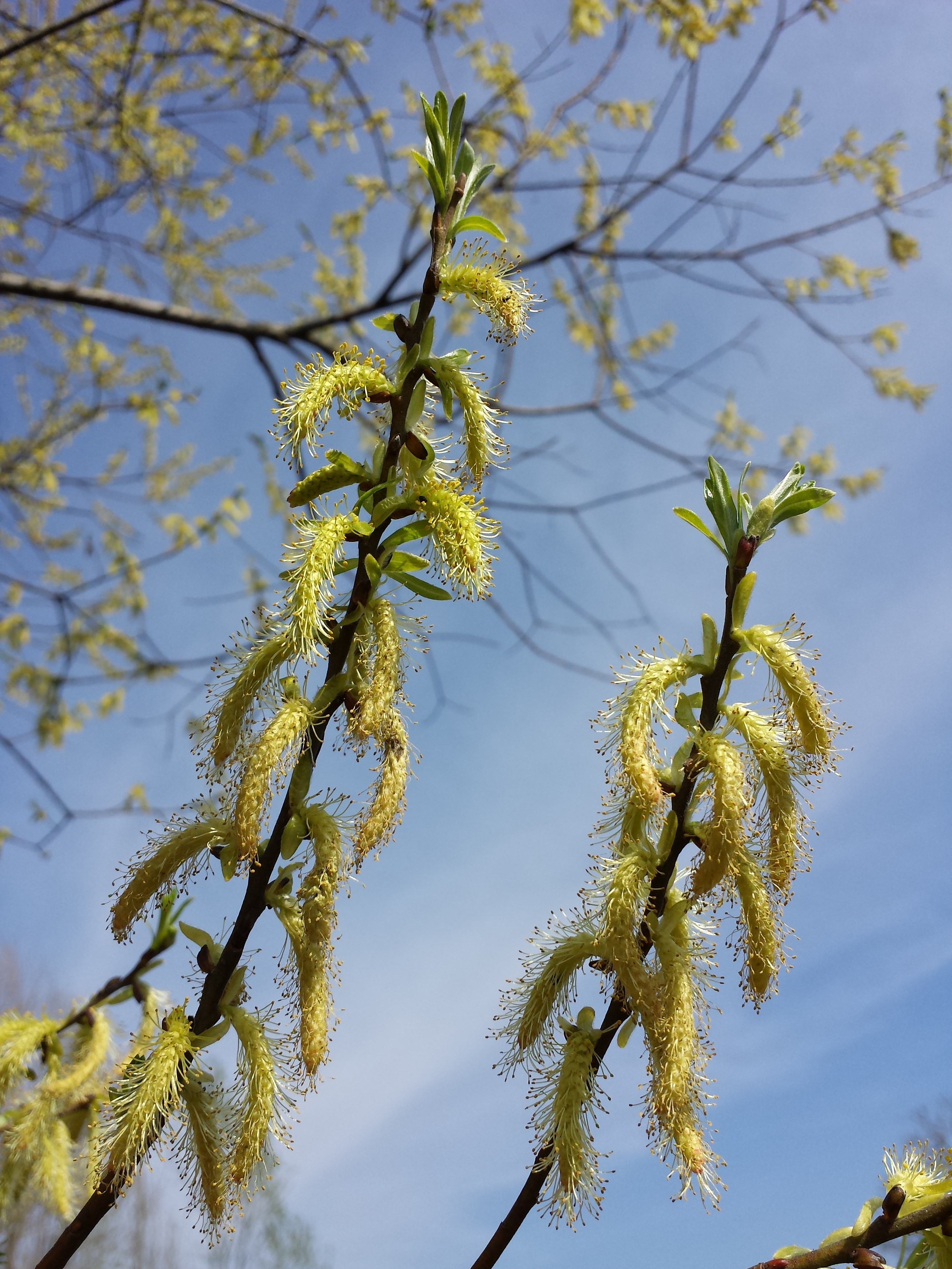 Male aments Taxon: Salix eleagnos (sensu Fischer et al. EfÖLS 2008 ISBN 978-3-85474-187-9; det. M. A. Fischer 2014-03-22) Location: Traisen river near Traismauer, district Sankt Pölten-Land, Lower Austria - ca. 190 m a.s.l. Habitat: river bank